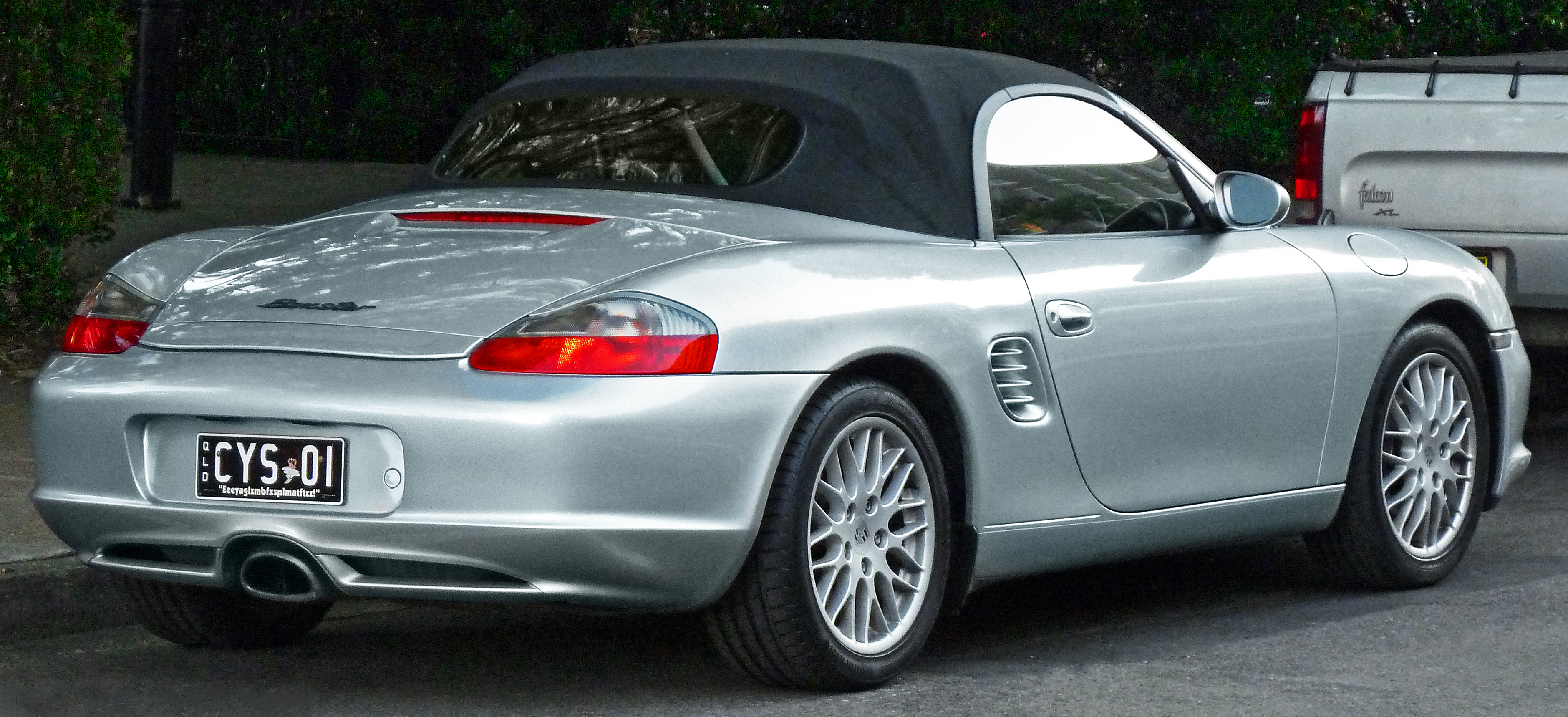 2003 Porsche Boxster (986) convertible. Photographed in Camperdown, New South Wales, Australia. Vehicle registration enquiry results Jurisdiction Queensland Registration CYS01 Chassis code WP0ZZZ98Z4U600066 Year of manufacture 2003